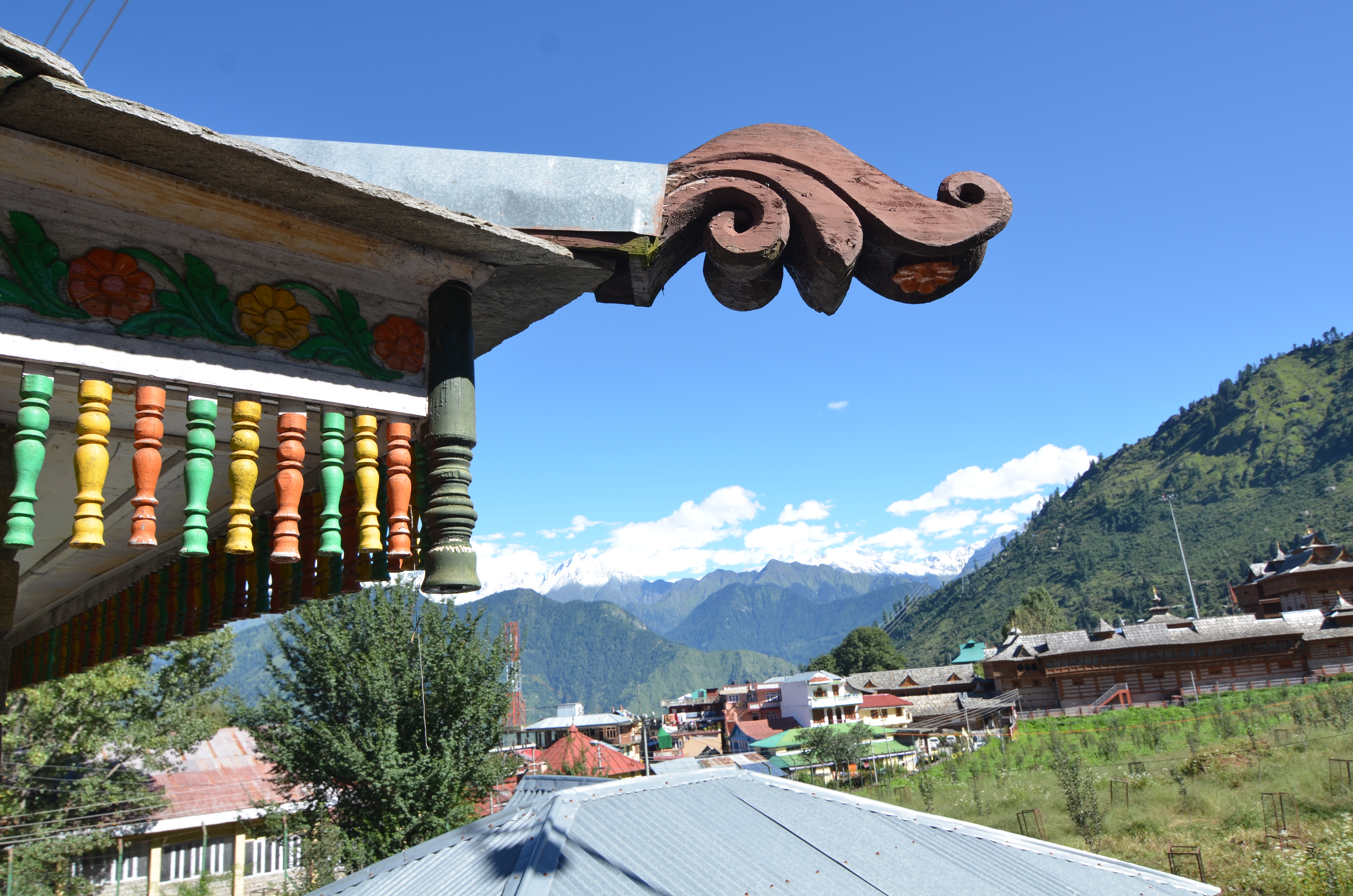 Unique blend of architecture